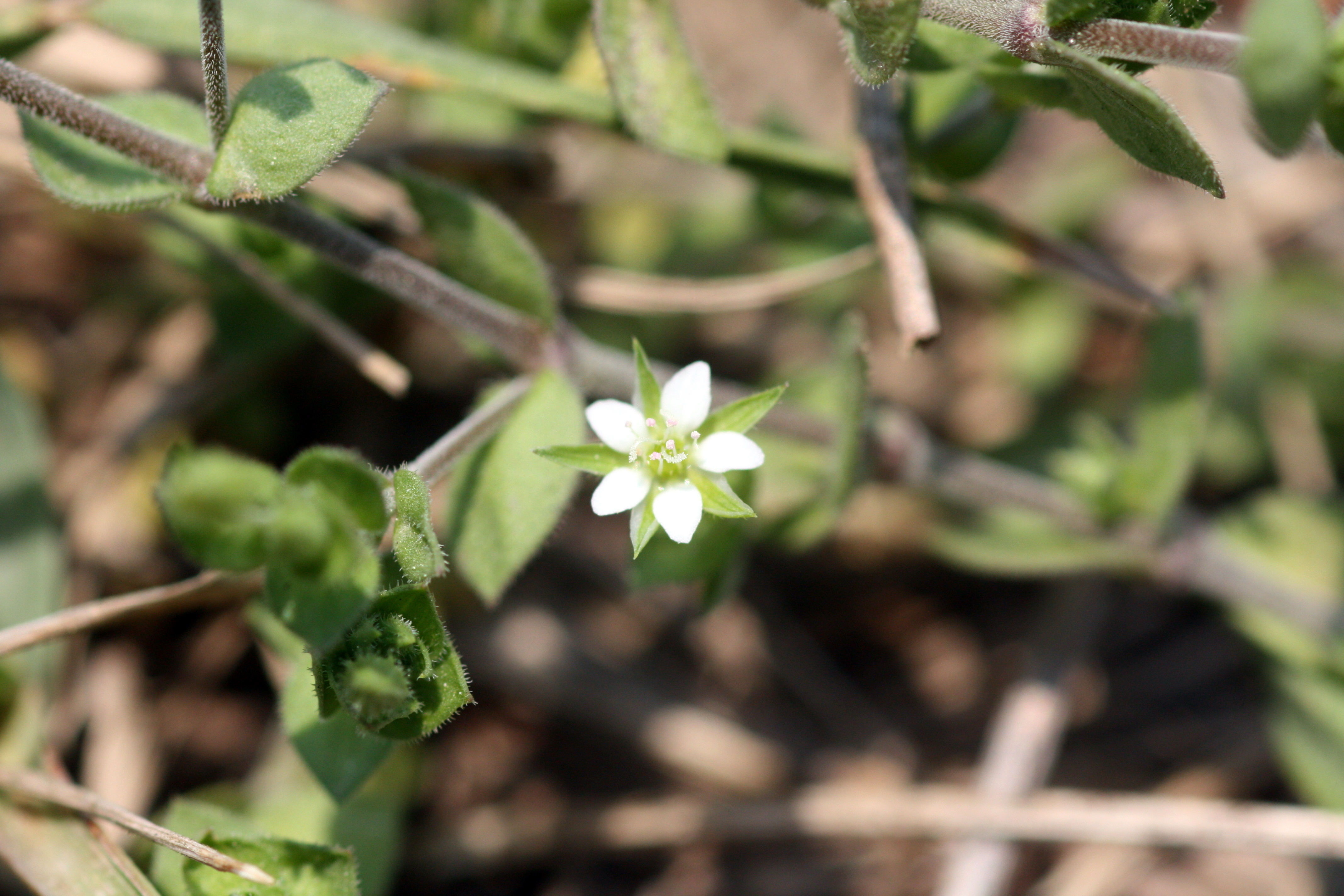 Arenaria serpyllifolia